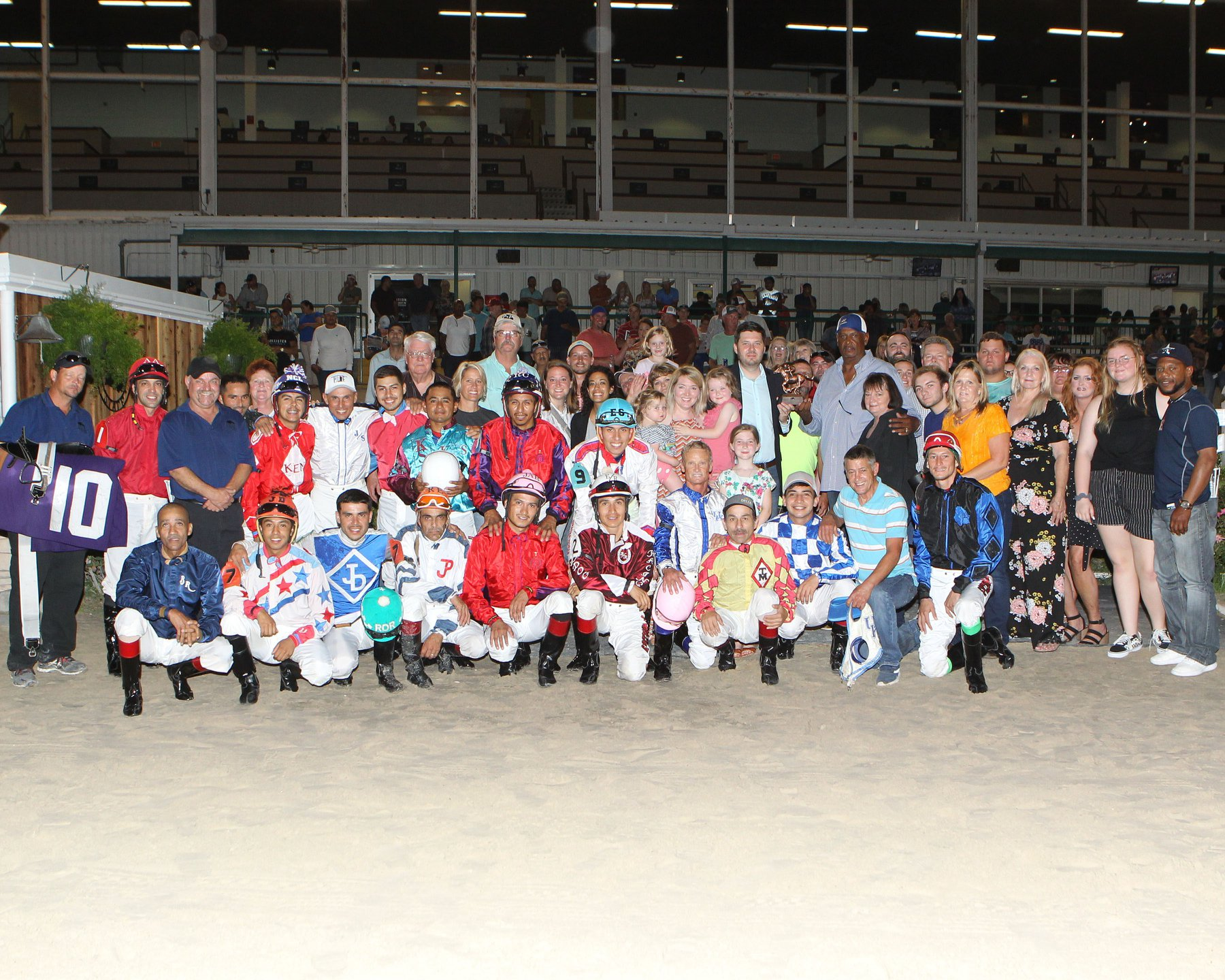 Win picture after the 2018 running of the Matt Baker Memorial at Delta Downs in Vinton, La.